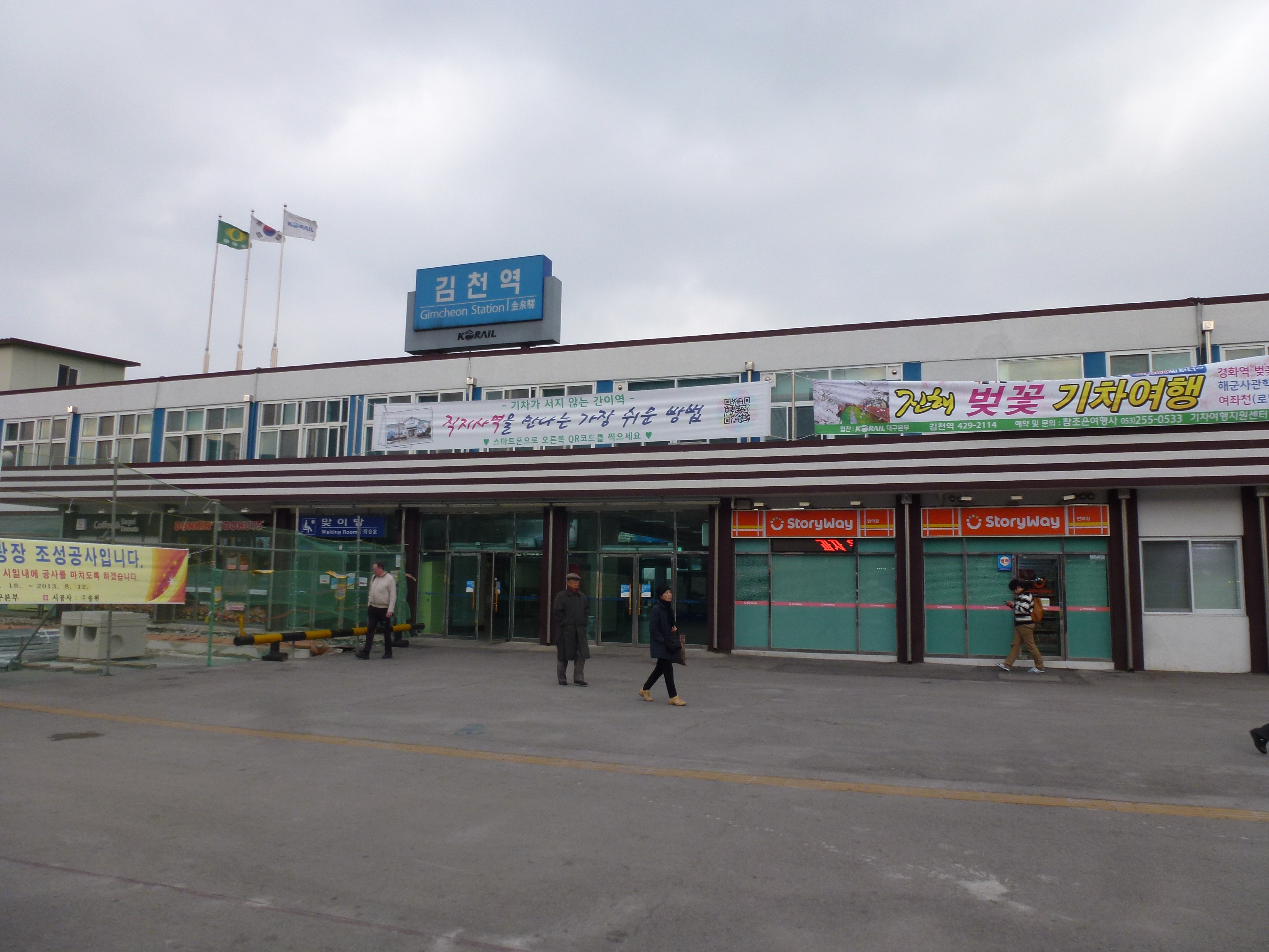 Gimcheon station, in South Korea